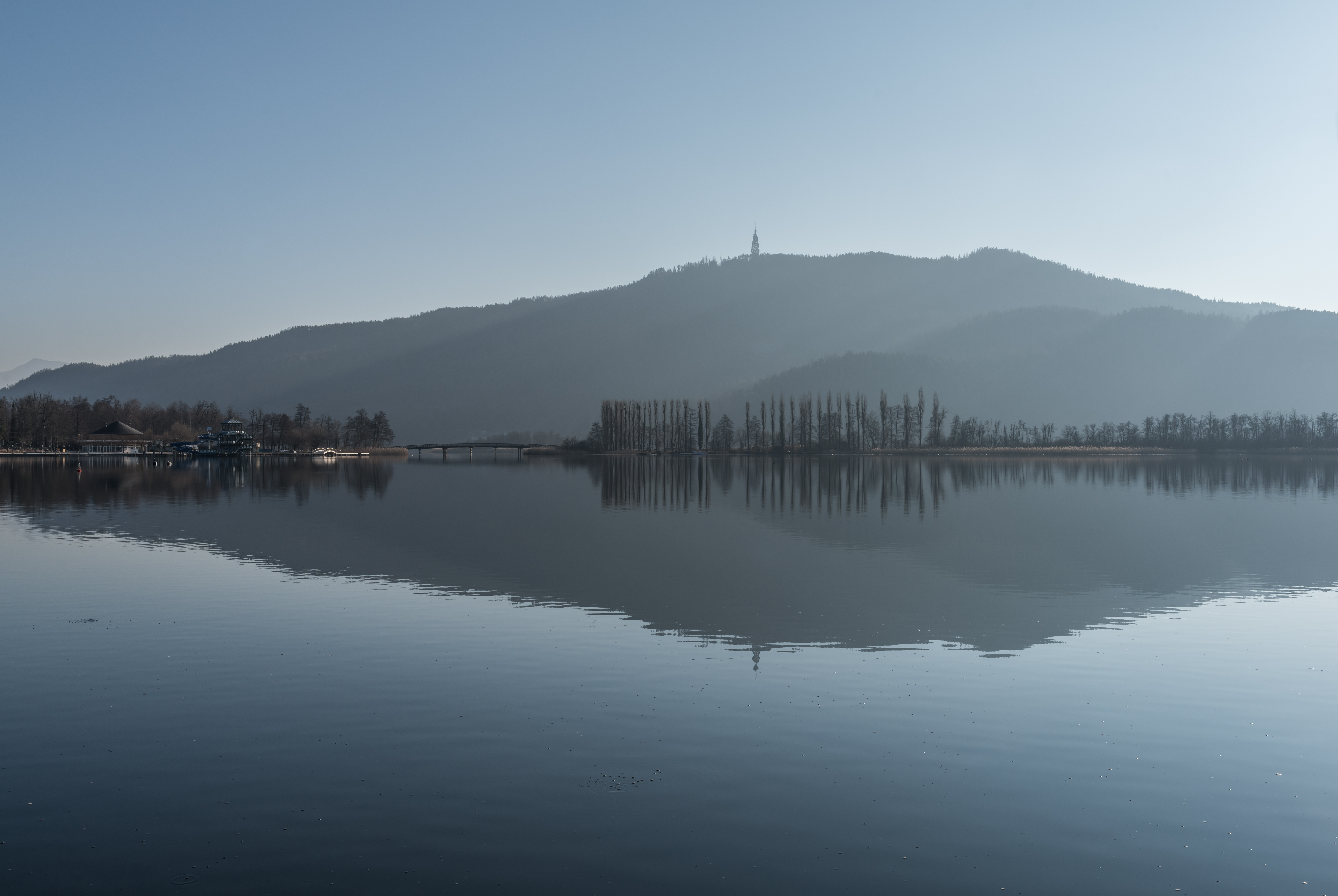 View of the Lake Woerth, the Flower Island and the Pyramidenkogel, Werzerpromenade, municipality Poertschach on the Lake Woerth, district Klagenfurt Land, Carinthia, Austria, EU